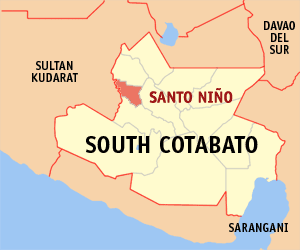 Map of the South Cotabato showing the location of Santo Niño